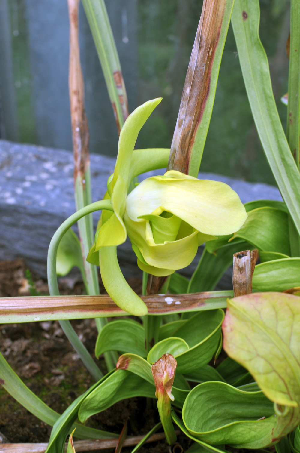 Sarracenia oreophila Conservatoire botanique national de Brest Native nameConservatoire botanique national de BrestLocationBrest, France, FranceCoordinates48° 24′ 10″ N, 4° 26′ 54″ W Established1975: established, 1978: opened to publicWebsite